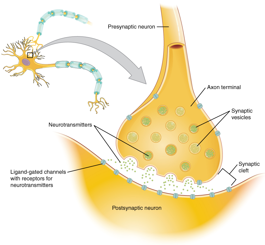 Version 8.25 from the Textbook OpenStax Anatomy and Physiology Published May 18, 2016